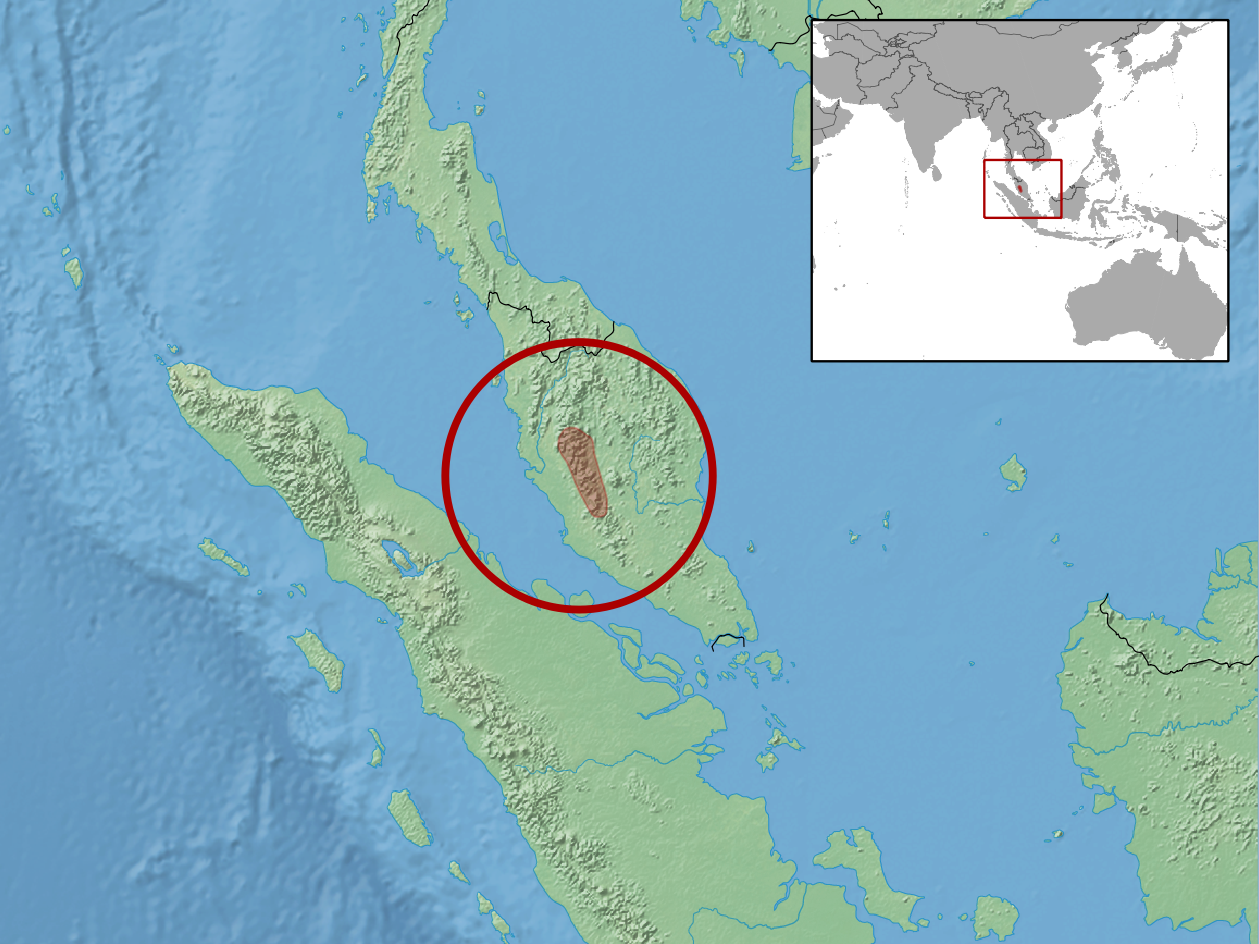 geographic distribution of Larutia miodactyla